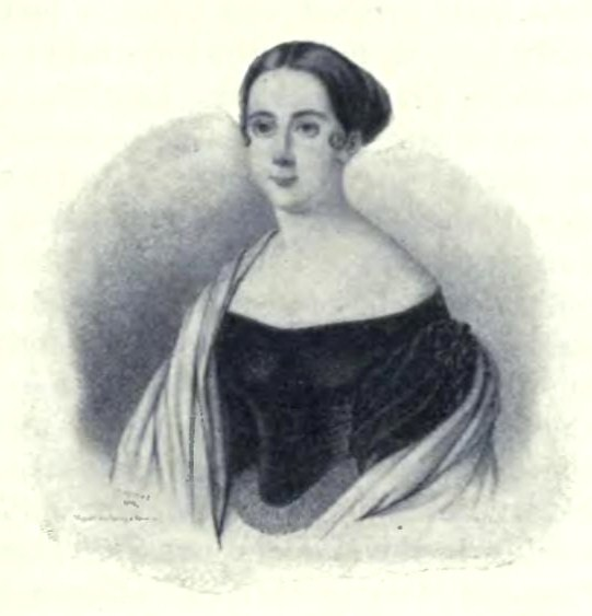 British singer Anna Bishop. After a drawing by Droinet. Image from Nils Personne: Svenska Teatern VIII (1927).